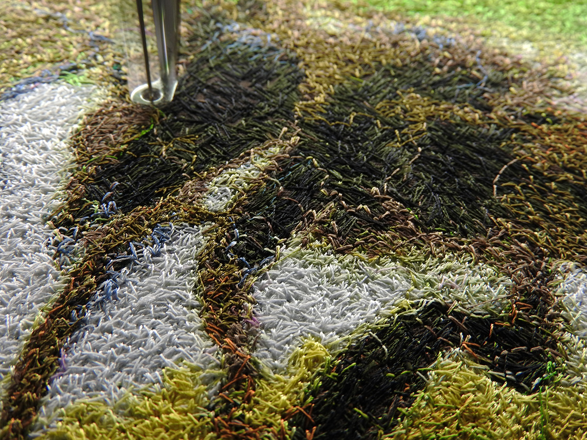 Detail of an embroidered bee from a Beekeeper society banner in Slovenia